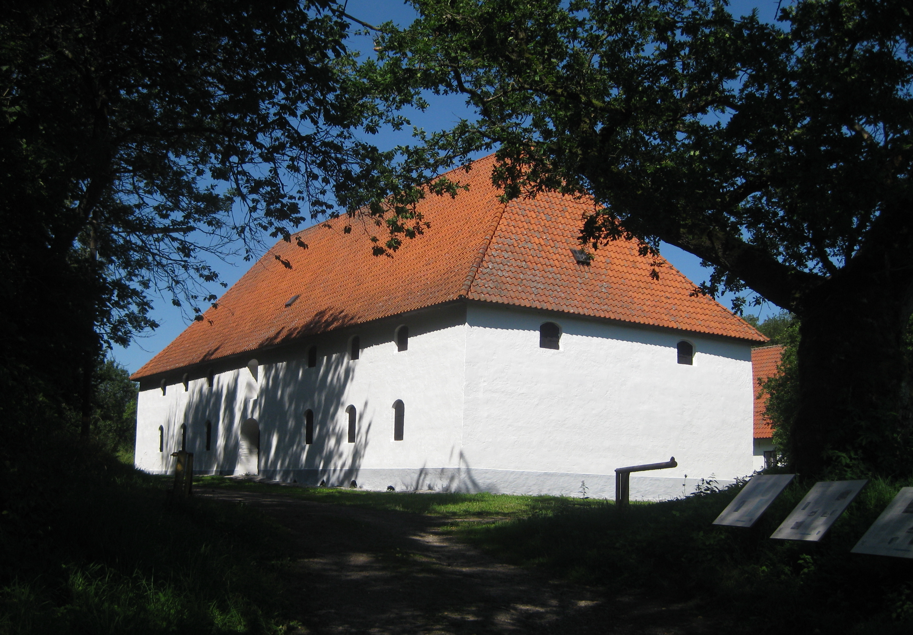 Building the historic mine in Andrarum, Skåne, Sweden